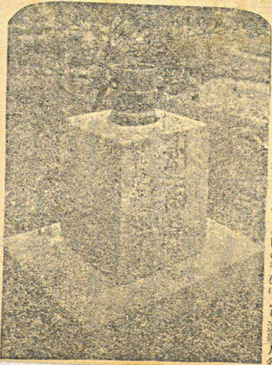 one udometer of Seonhwadang, in Daegu